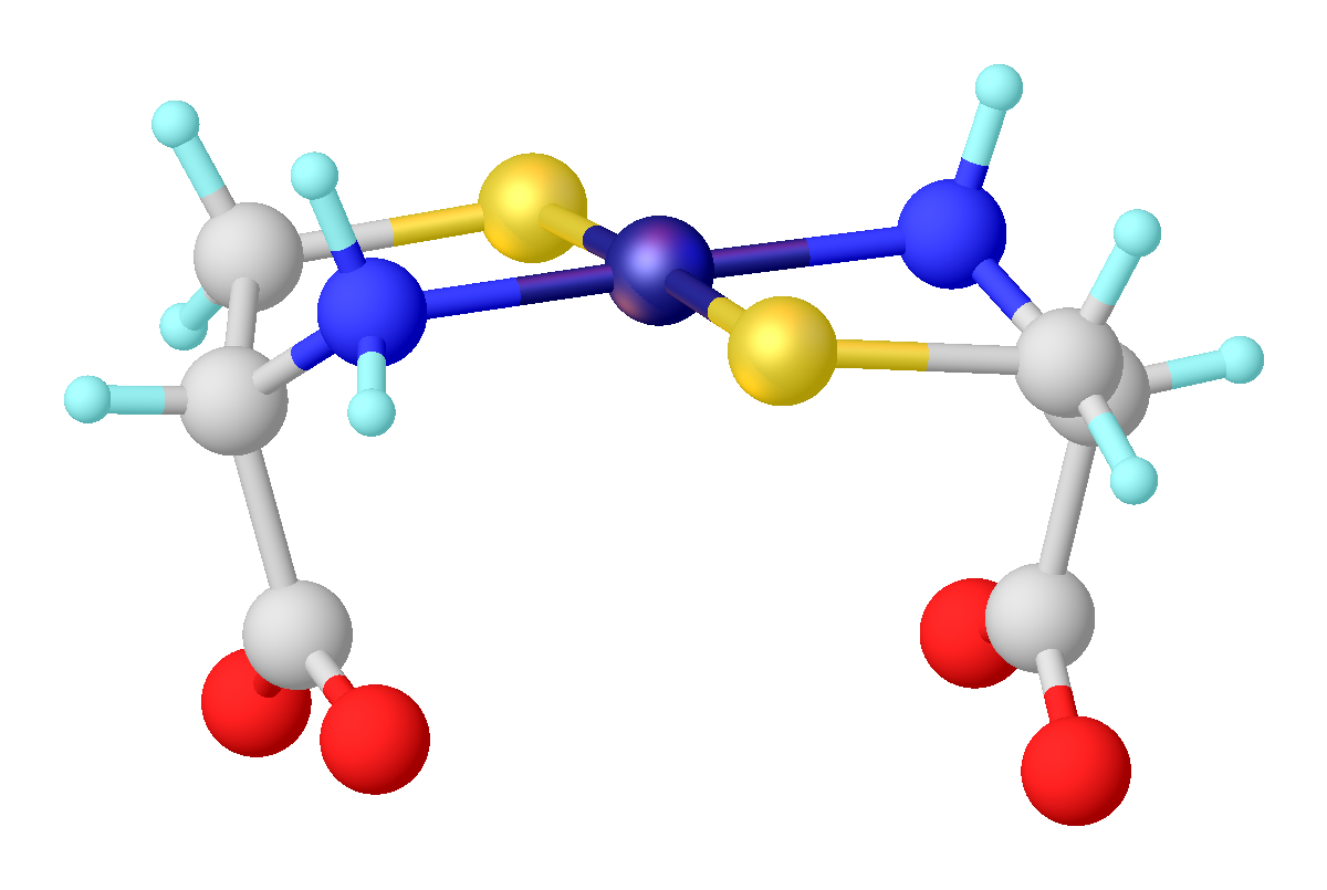 structure of Ni(cysteinate)2 from doi 10.1021/ic00010a043